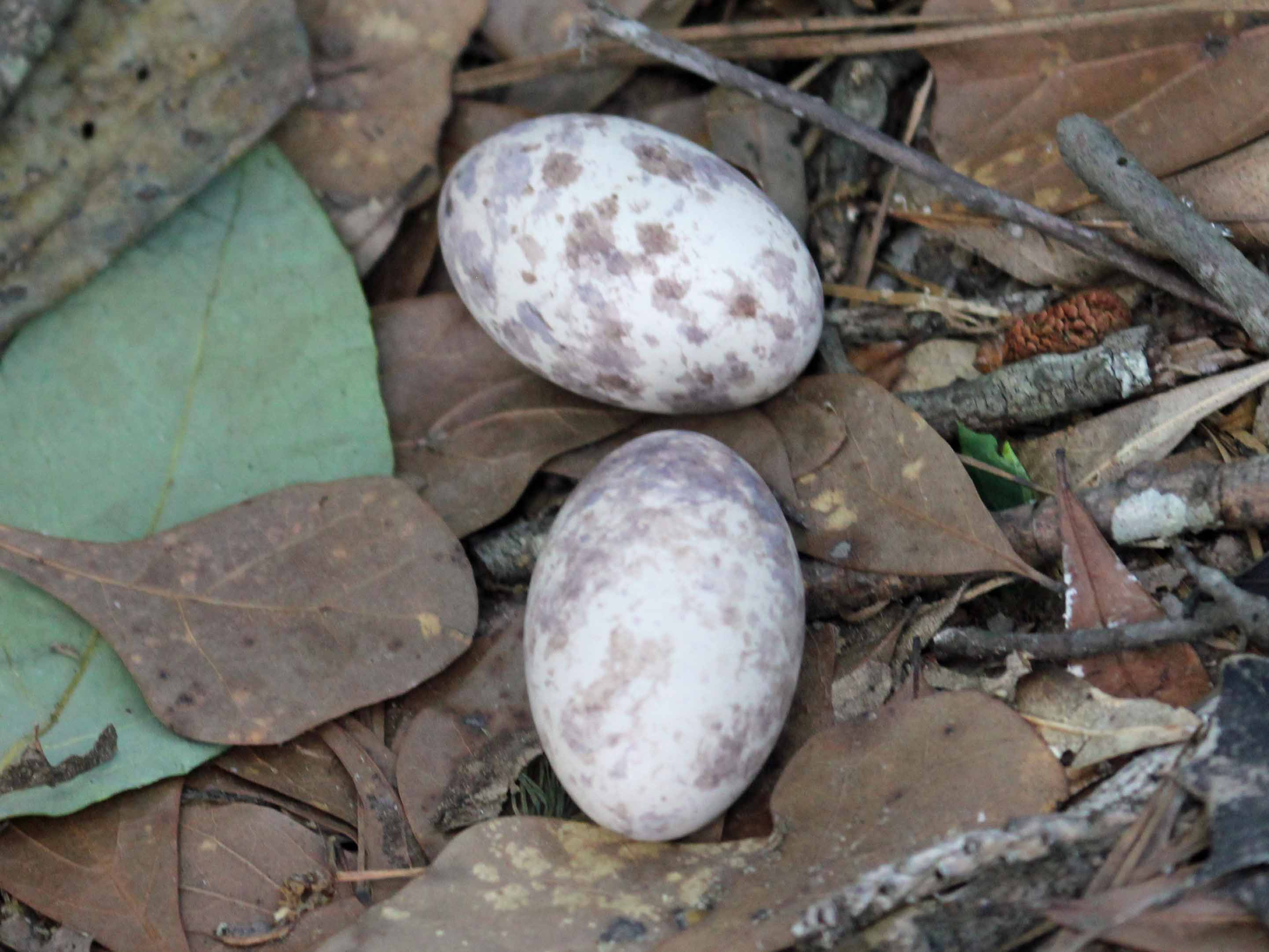 Chuck-will's-widow (Caprimulgus carolinensis) in Exum, North Carolina. Females do not build nests, but rather lay eggs on patches of dead leaves on the ground. The eggs, which have spots of brown and lavender, are subsequently incubated by the female.